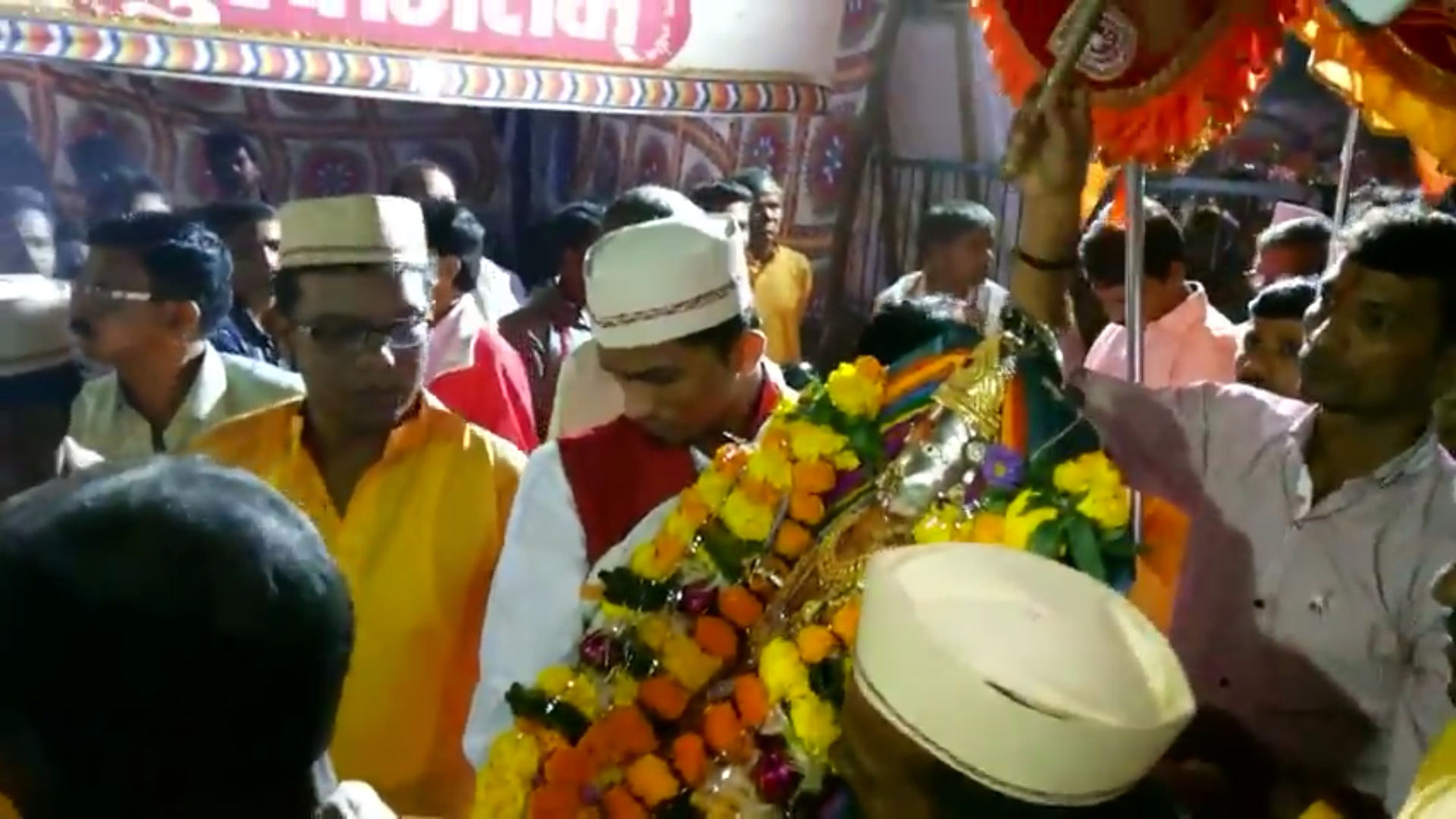 Navadurga devi (bhalavli)